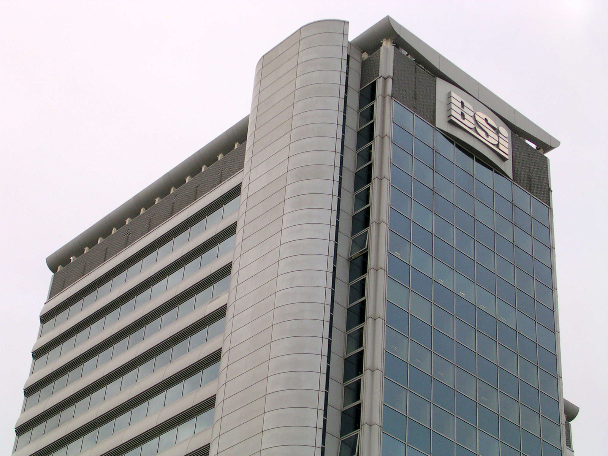 BSI (British Standard Institut headquaters in London (389 Chiswick High Road).